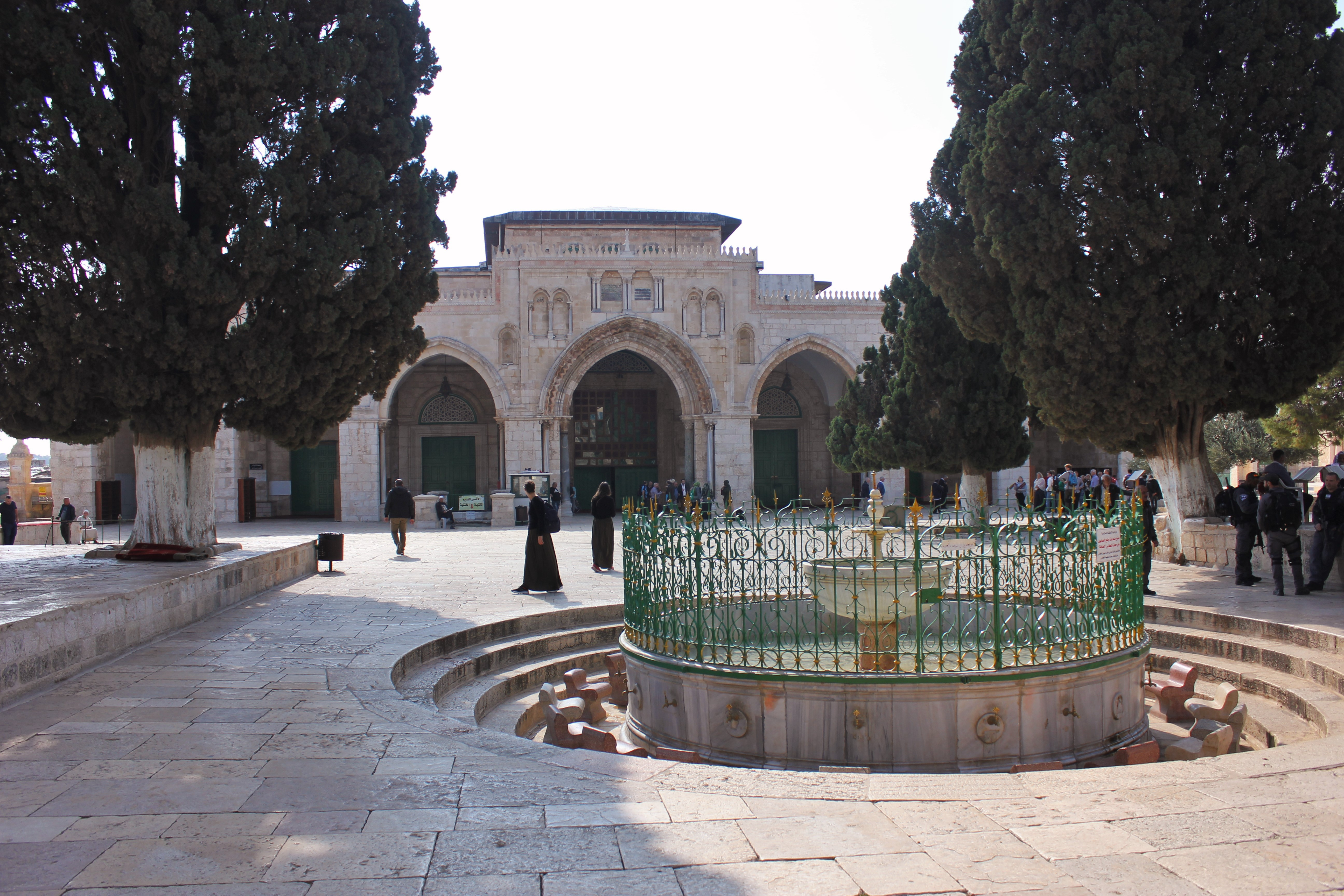 Al-Kas Fountain and Al-Aqsa-Moschee Fassade on Temple Mount Plaza․